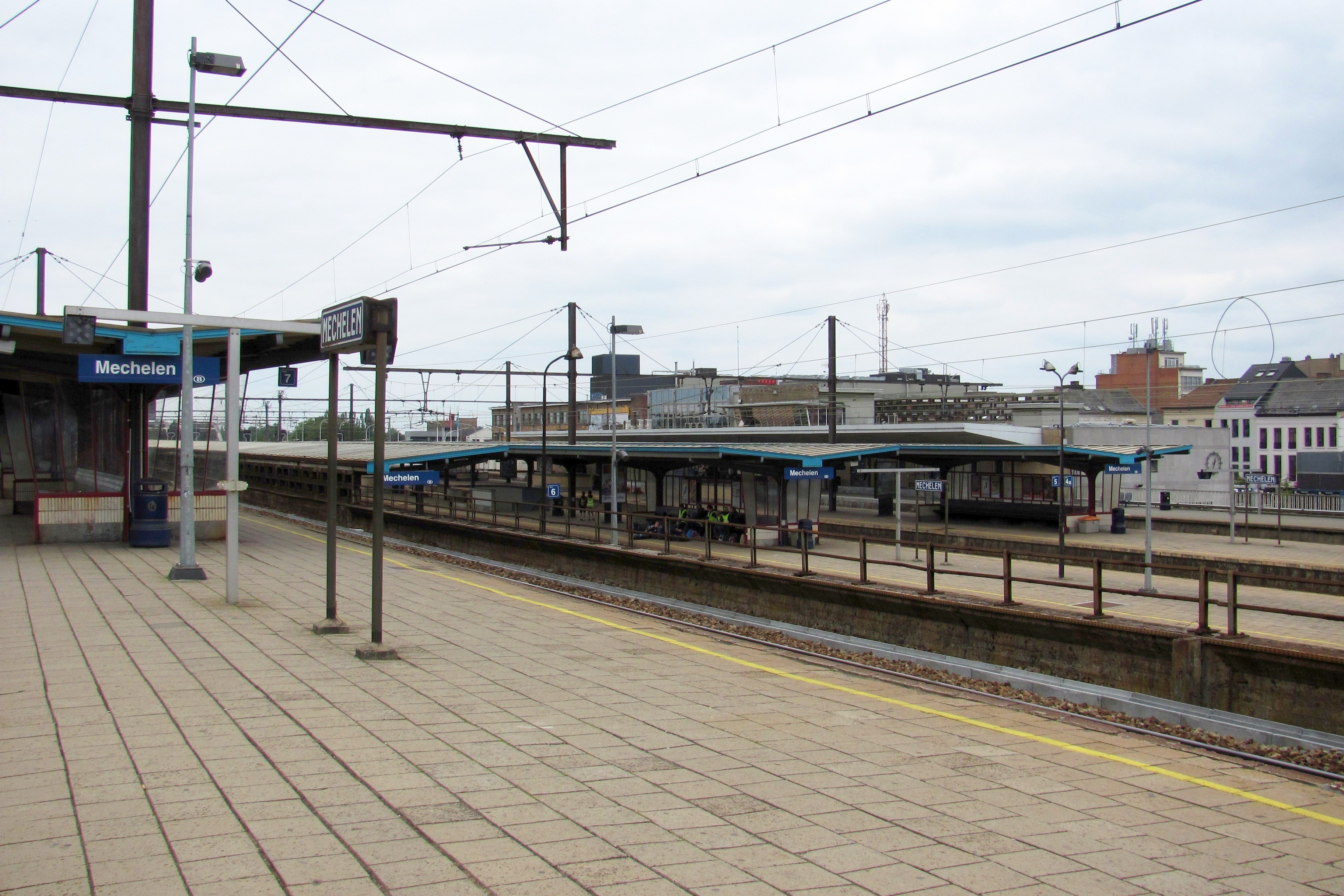 Mechelen station. In the front the tracks of line 25, a few meters higher.